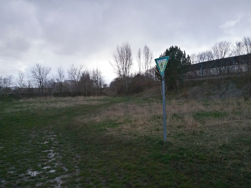 The Nasse Dreieck is a large, wild green area in the Berlin district of Pankow.